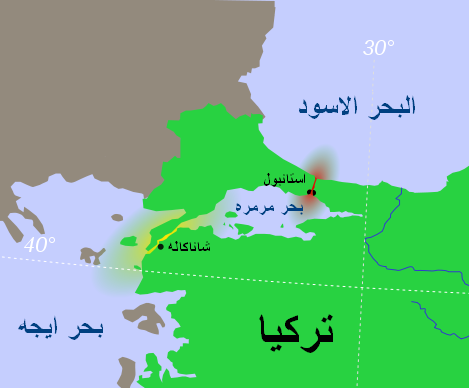 Disambiguation for Turkish Straits.